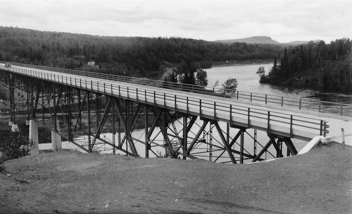 The Nipigon River Bridge shortly after it was opened (on September 24, 1937). This bridge has been replaced, but is still the narrowest transportation bottleneck between the Atlantic and Pacific oceans.